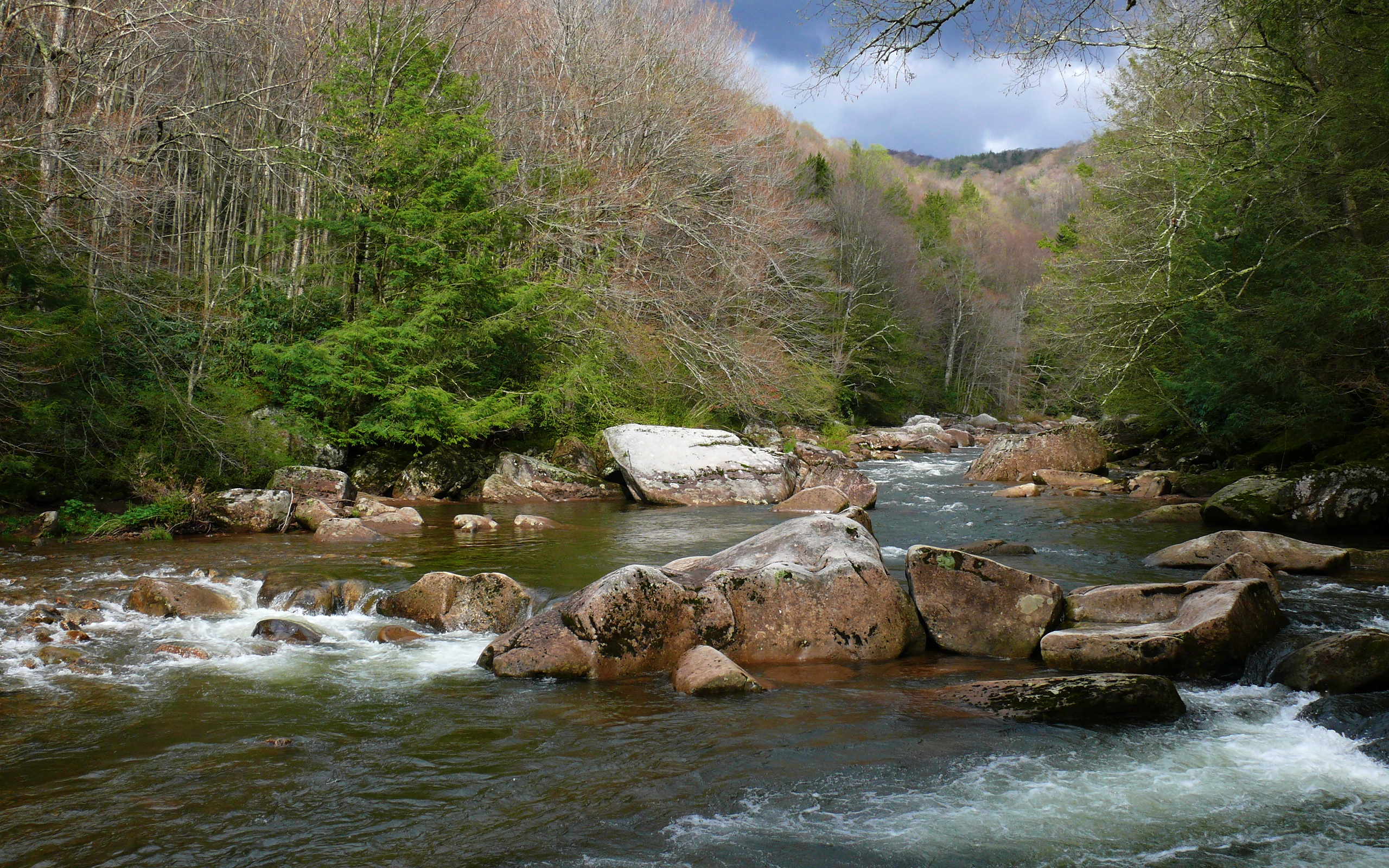 The Williams River is a popular trout fishing stream in the Monongahela National Forest.Photo taken with a Panasonic Lumix DMC-FZ50 in Pocahontas County, WV, USA.Cropping and post-processing performed with The GIMP.